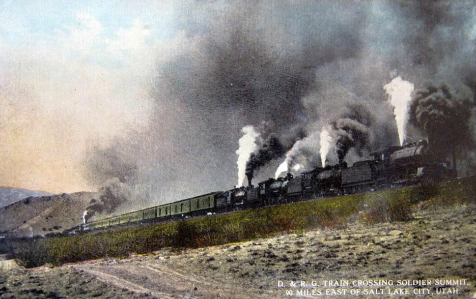 Postcard depiction of a Denver and Rio Grande train at Soldier Summit, Utah. Note that there are four locomotives in front pulling the train up the summit and a fifth at the back pushing it.